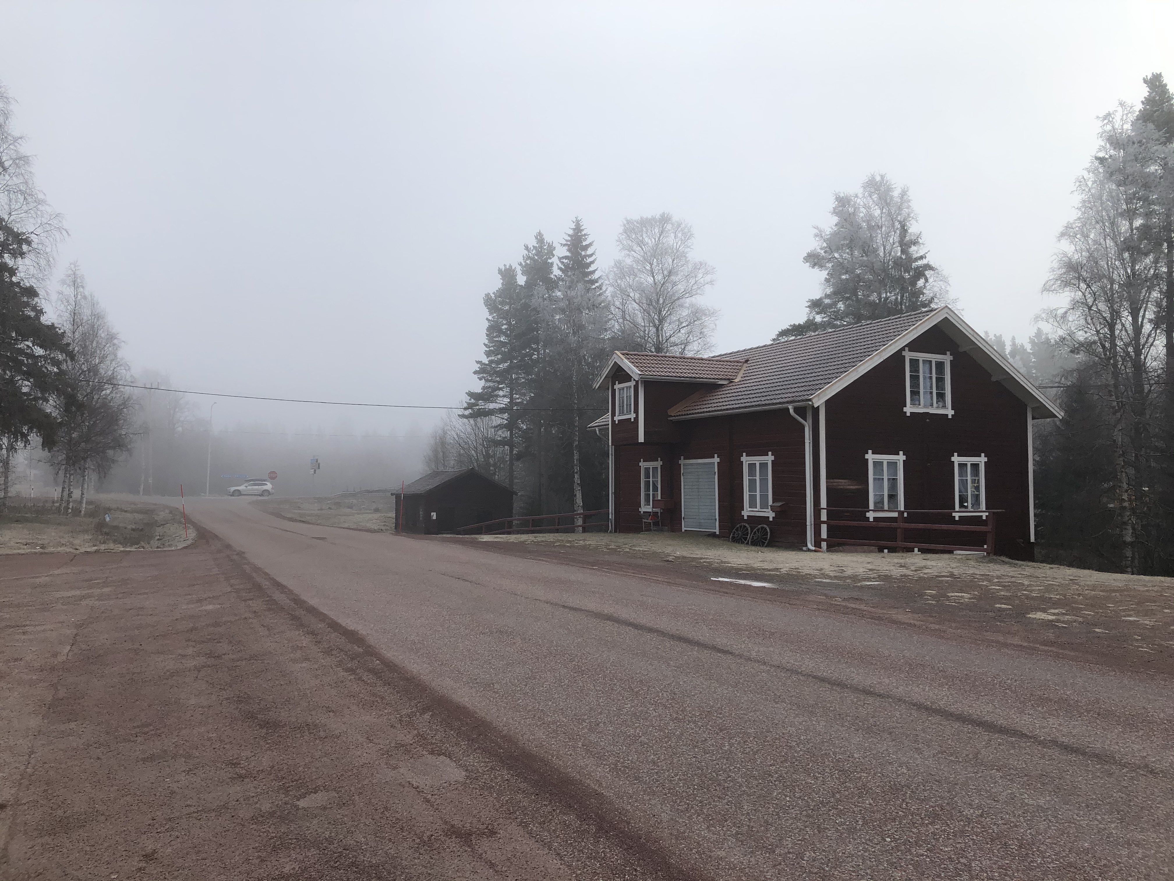 A street in Fu, village in Sweden.